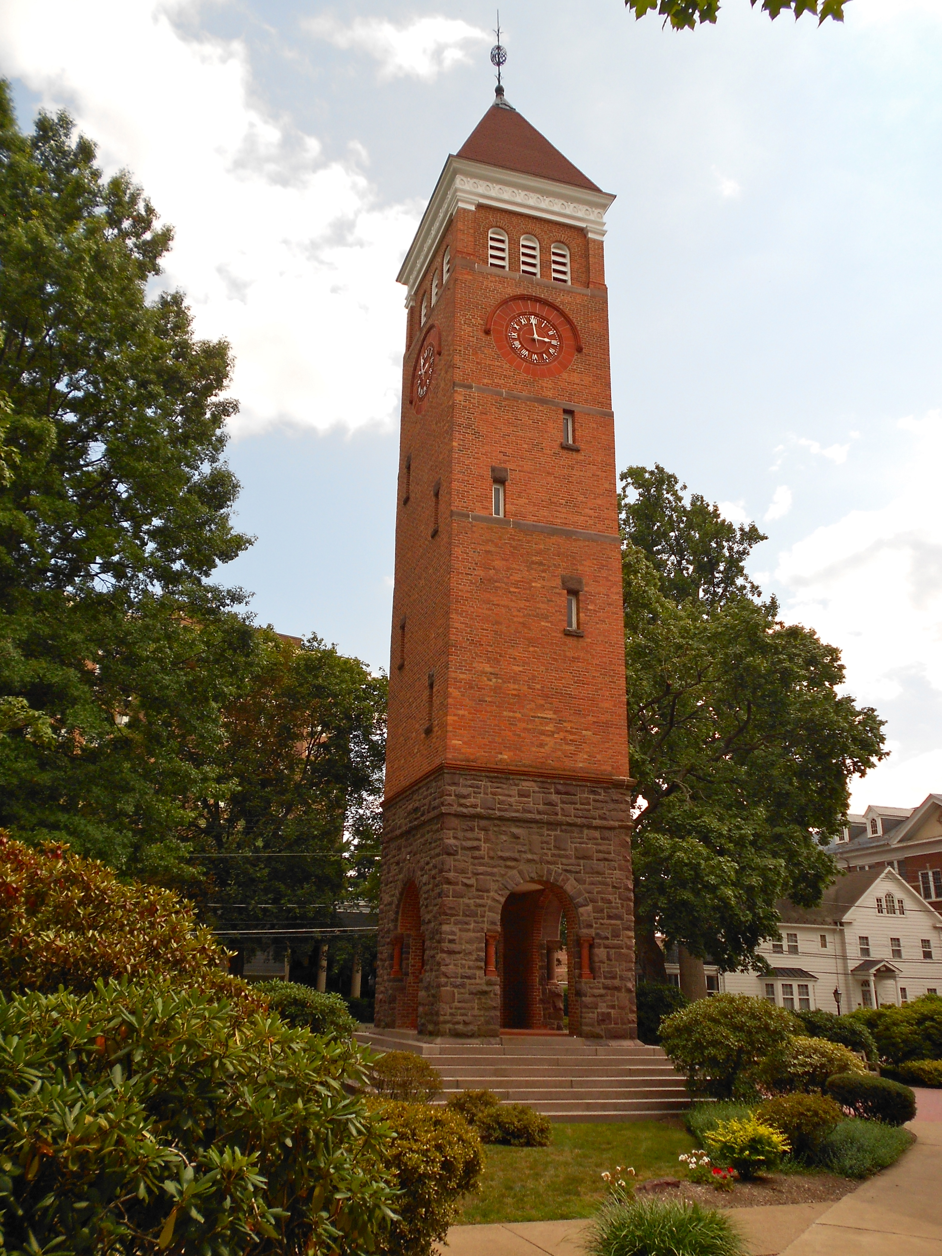 Wyoming Seminary, on the NRHP since August 6, 1979, on Sprague Avenue, Kingston, Luzerne County, Pennsylvania